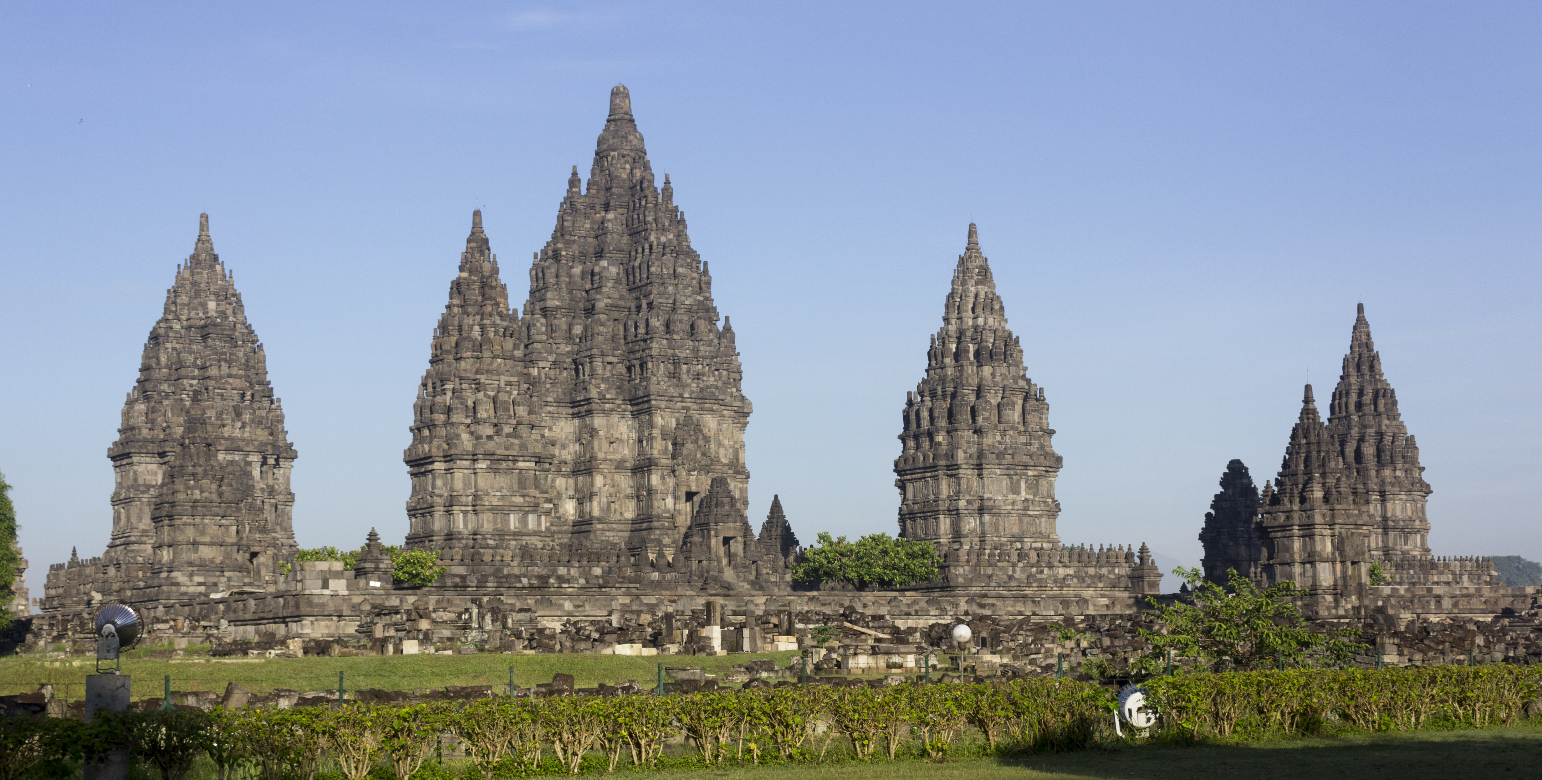 Prambanan Temple, viewed from the south-east